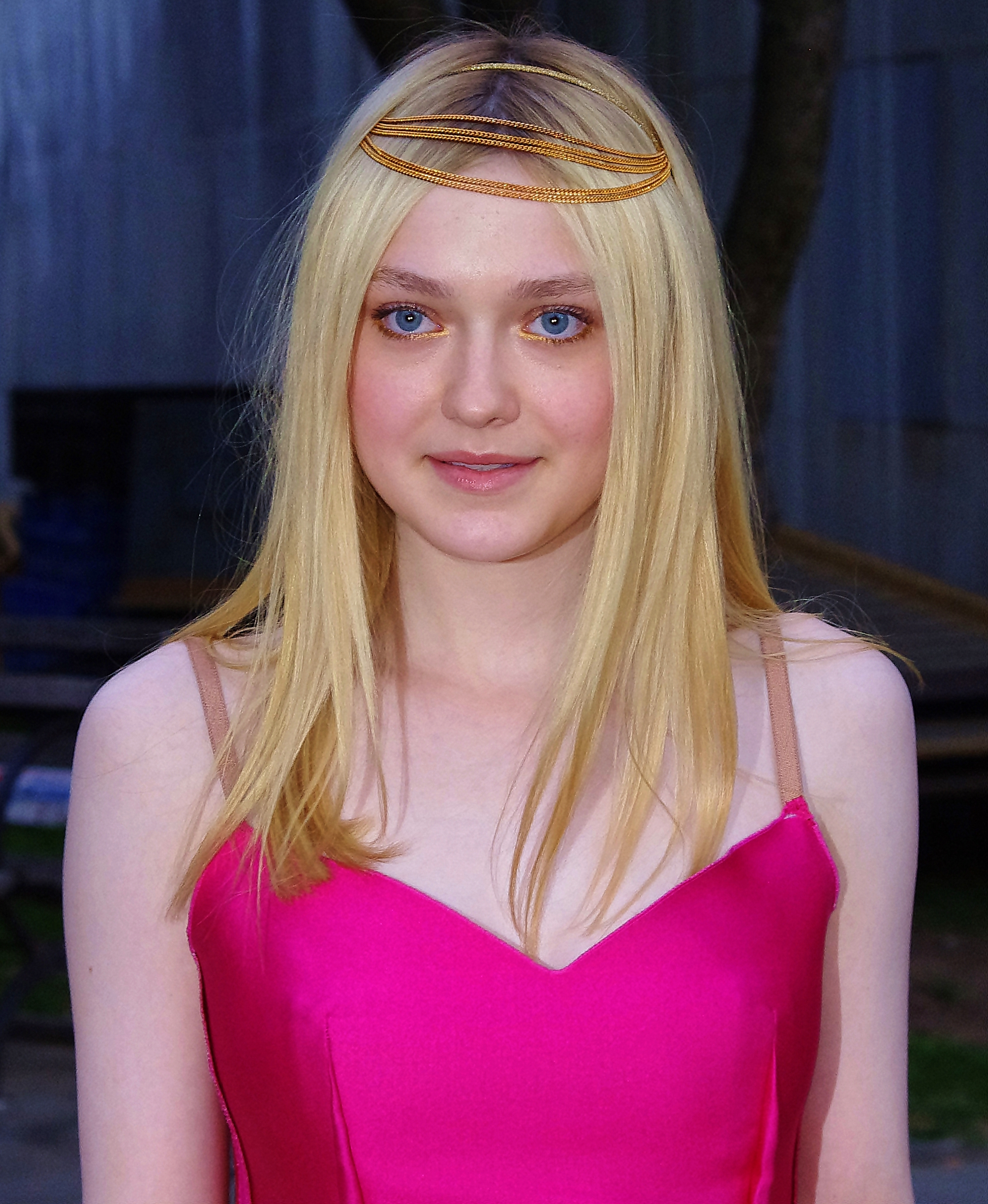 Dakota Fanning at the Vanity Fair party for the 2012 Tribeca Film Festival.